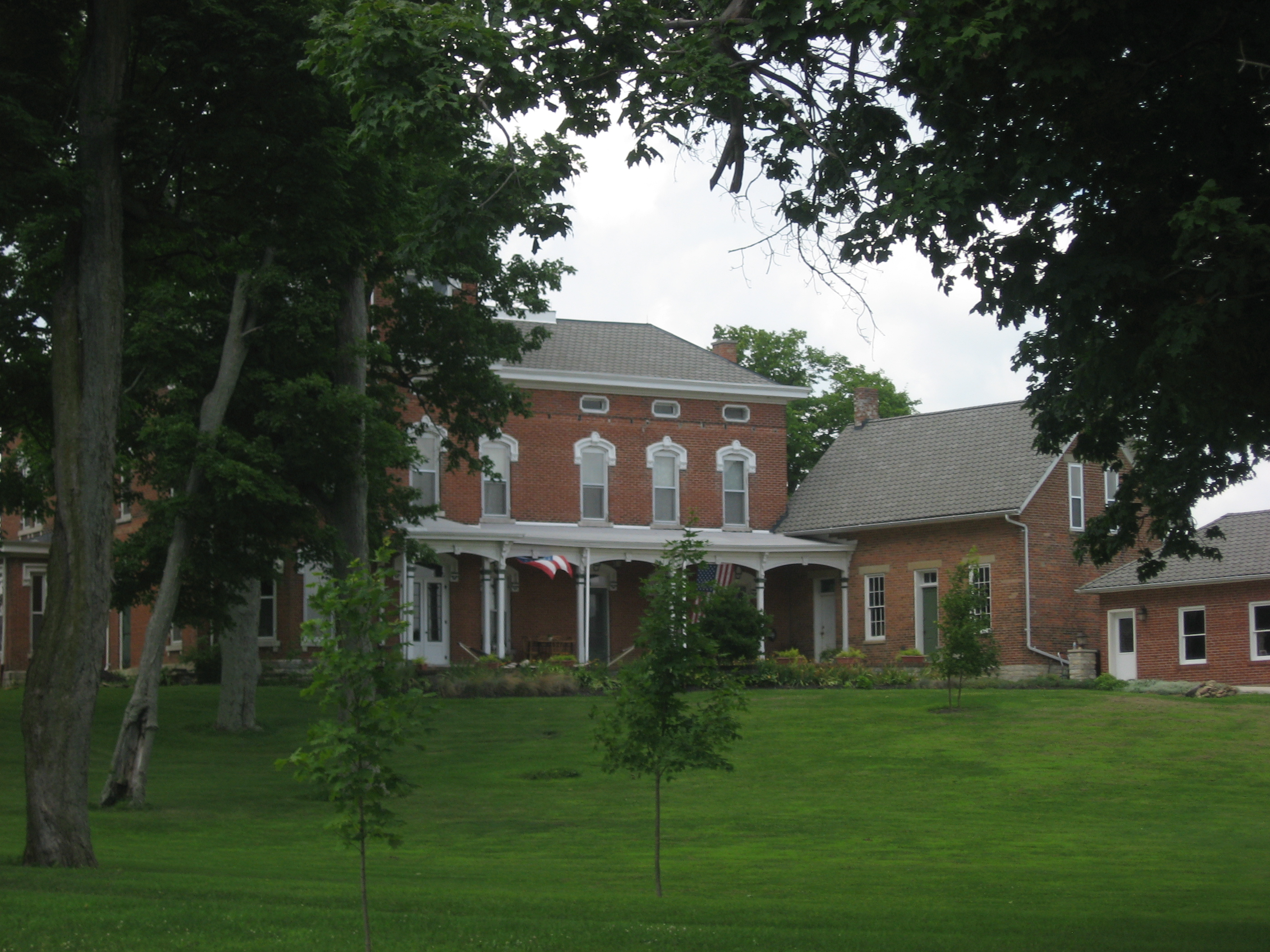 Front of the Christopher C. Walker Farmhouse, located along State Route 121 southwest of New Madison in Harrison Township, Darke County, Ohio, United States. Built in 1879, the house is listed on the National Register of Historic Places.